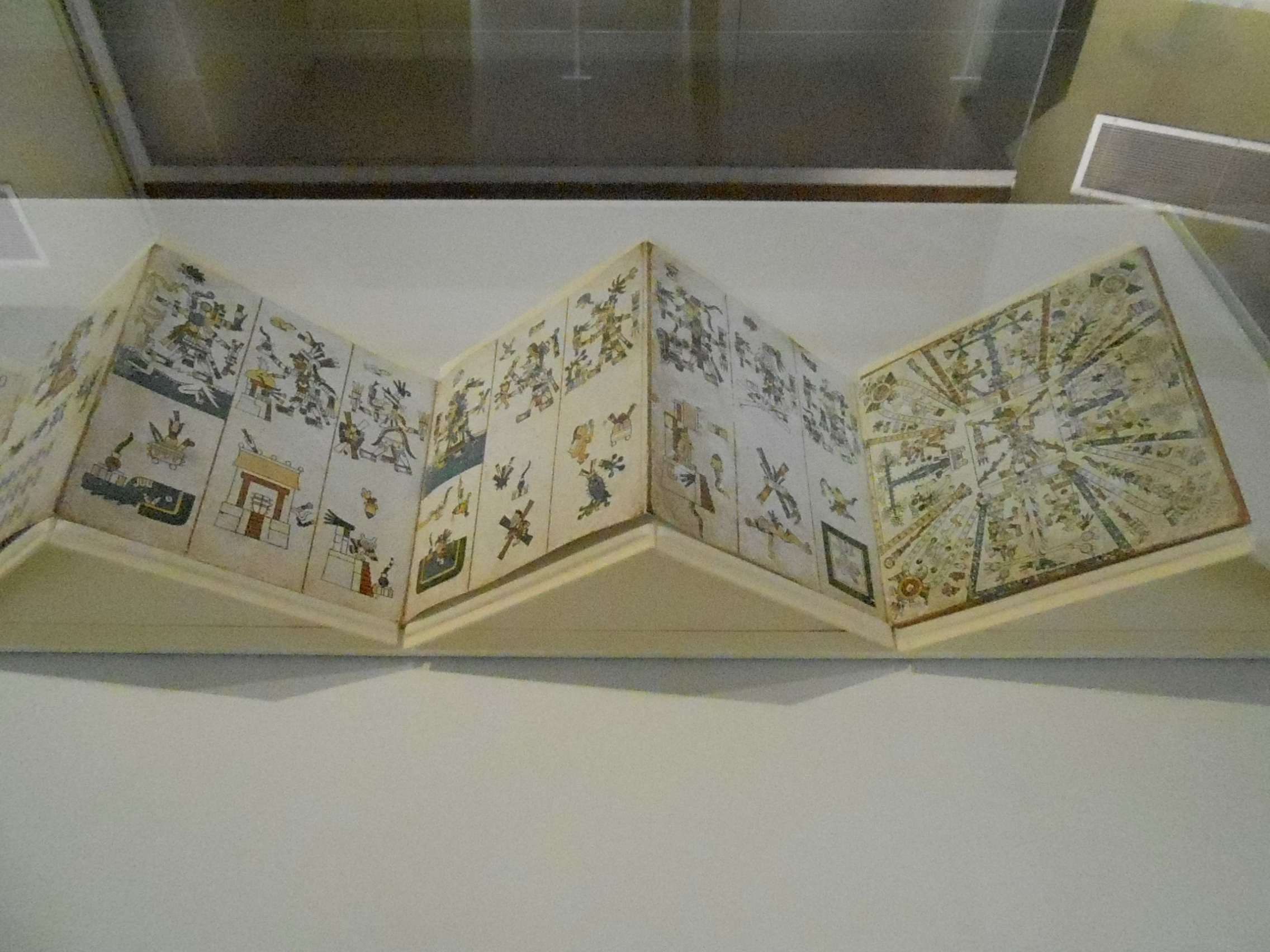 Photograph of the Codex Fejérváry-Mayer, on display at the World Museum Liverpool, England.